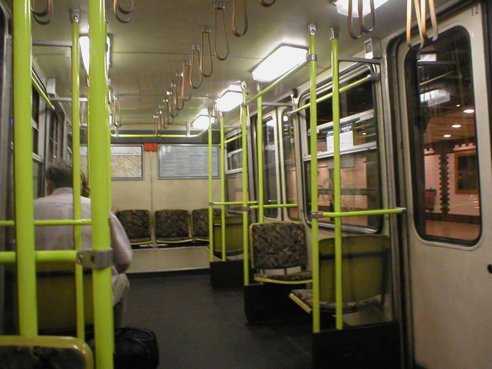 A train of the Budapest Földalatti, inside view